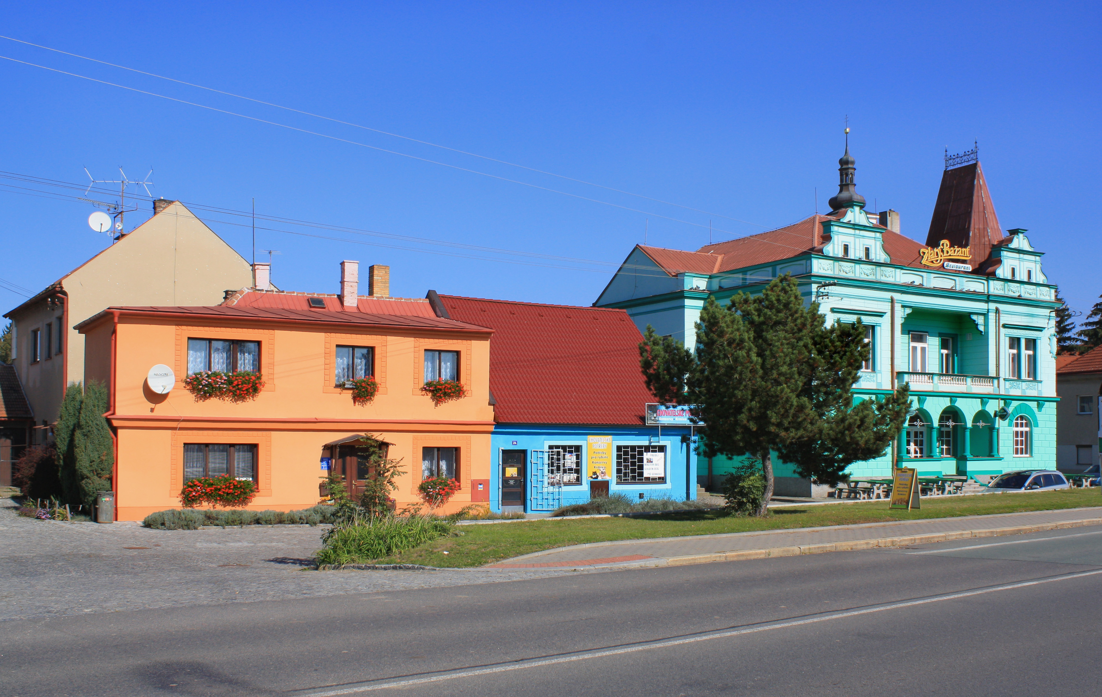 Smetanova street in Hrochův Týnec, Czech Republic